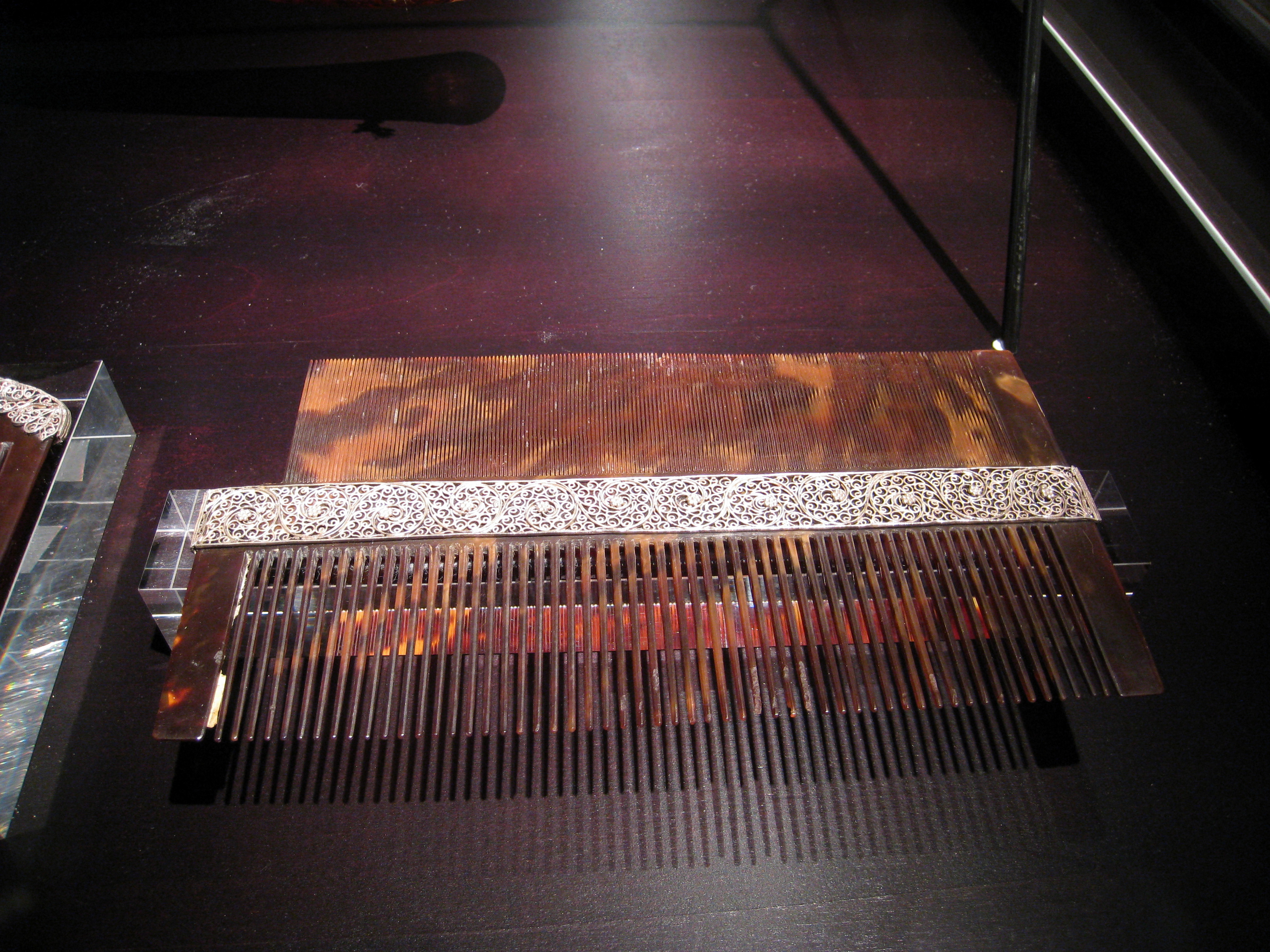 Schloss Ambras, Innsbruck, Austria - from the castle's collection of art and curiosities. A comb of tortoiseshell and silver, possibly from Goa; in the inventory of Rudolph II of Prague by 1607-1611.